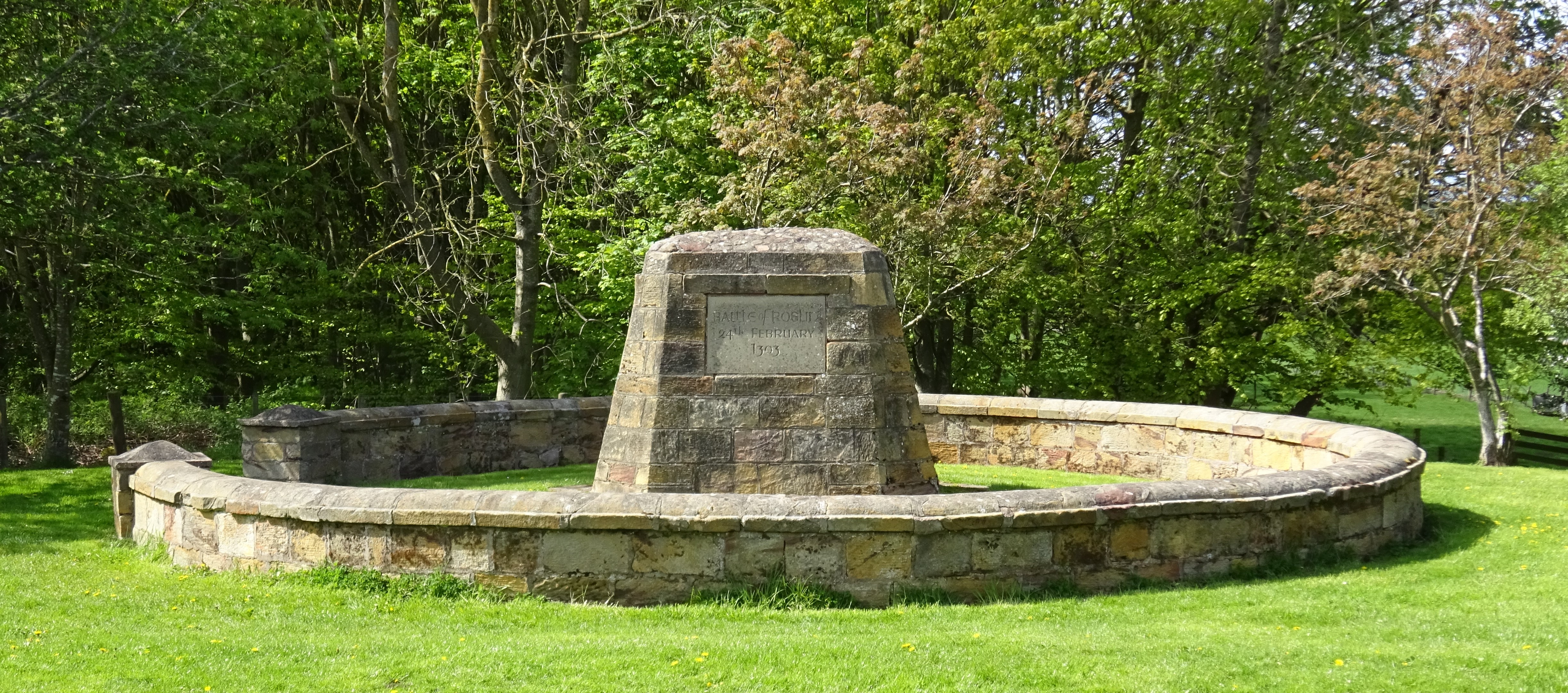 The Battle of Roslin took place during the First War of Scottish Independence. The battleground is near the village of Roslin, Midlothian and took place on the 24 February 1303